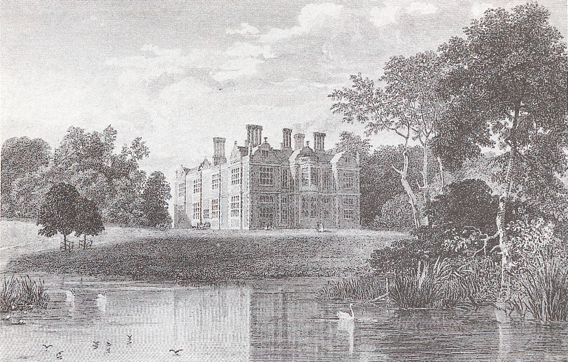 Engraving of Crewe Hall dating from c. 1818, showing the garden front and lake